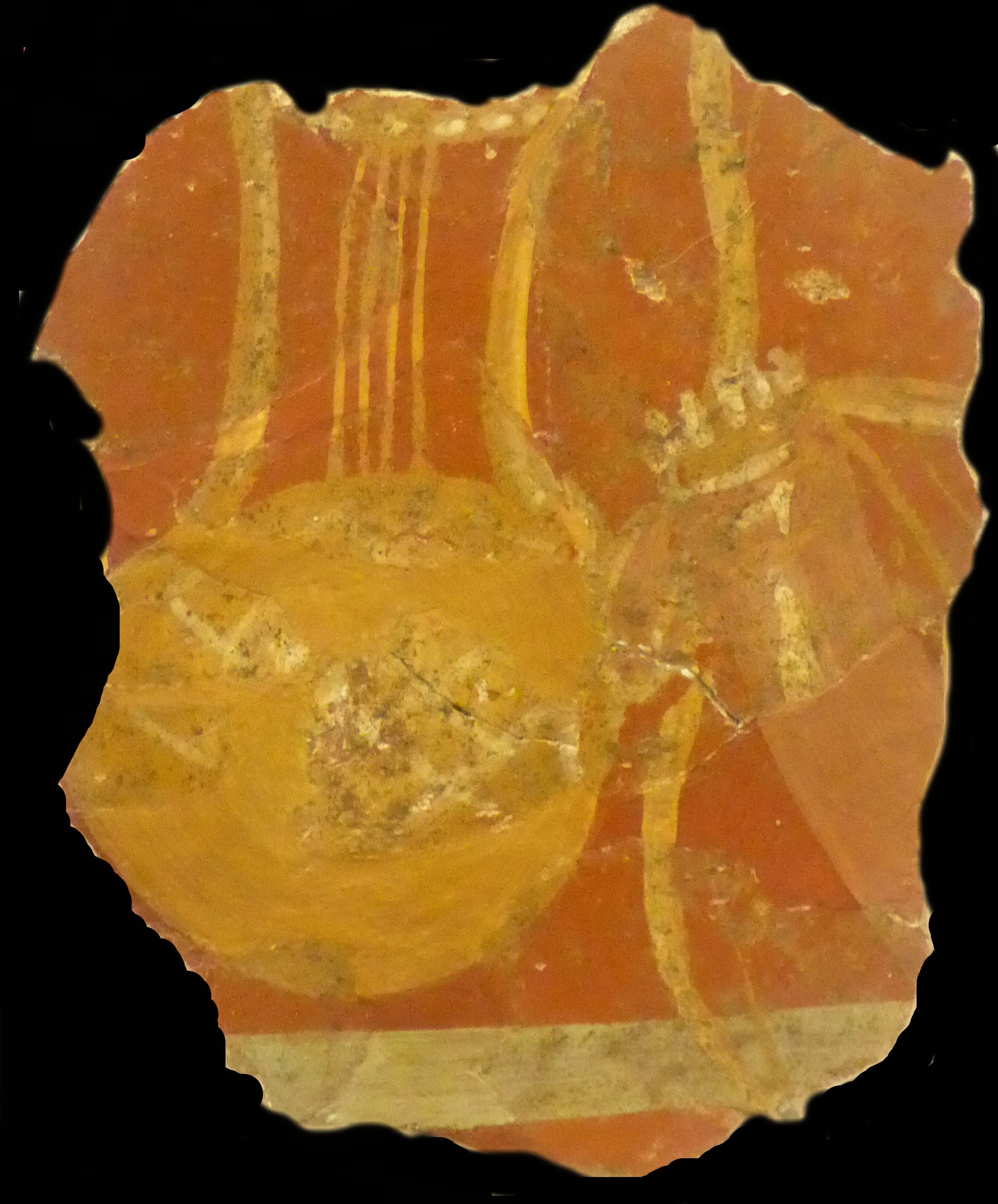 Fragment of wall painting, Roman, 1st century AD, found at Verulamium (St. Albans), Insula XIX, no Verulamium museum